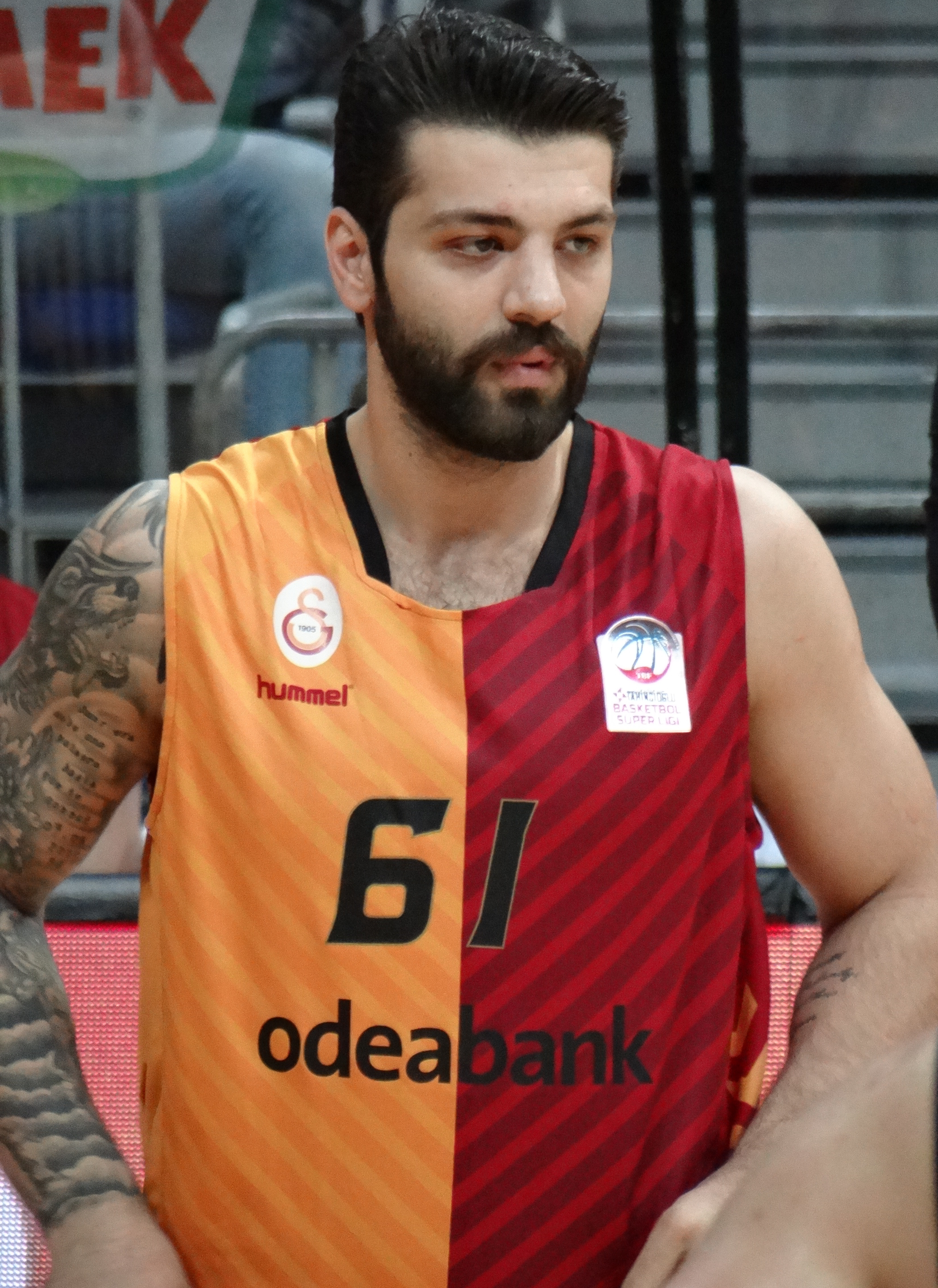 Göksenin Köksal Fenerbahçe Men's Basketball vs Galatasaray Men's Basketball TSL 20180304